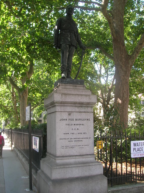 John Fox Burgoyne Statue, Waterloo Place, London SW1